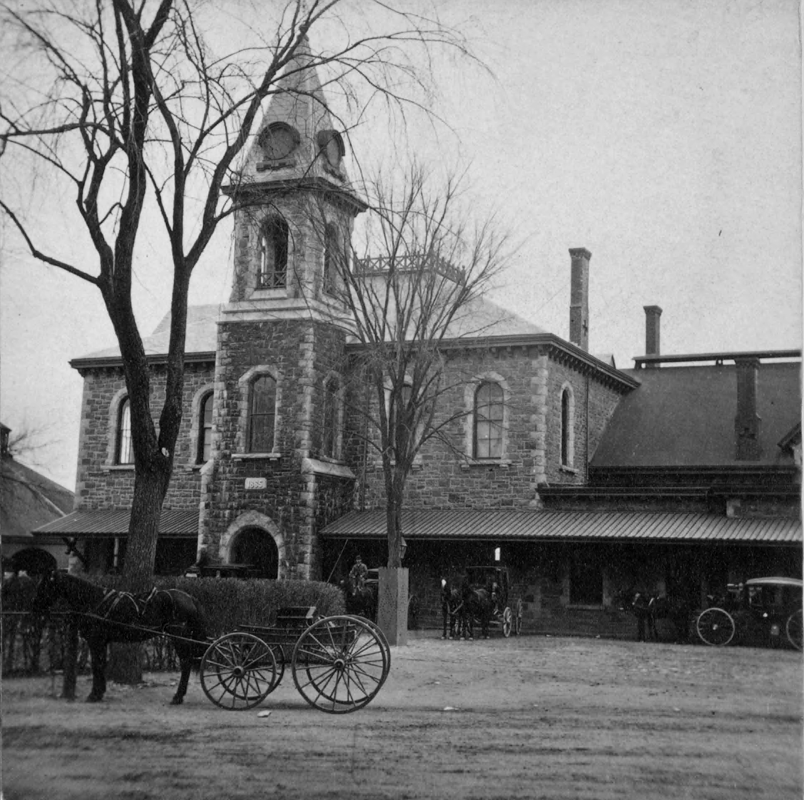 Taunton Central Station in the late 1800s. This is a crop from a stereoscopic slide.